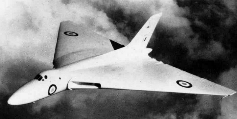 The prototype Avro Vulcan (s/n XV770) in flight. VX770 was delivered in August 1952. It was destroyed when it suffered a mid-air explosion on 20 September 1958.